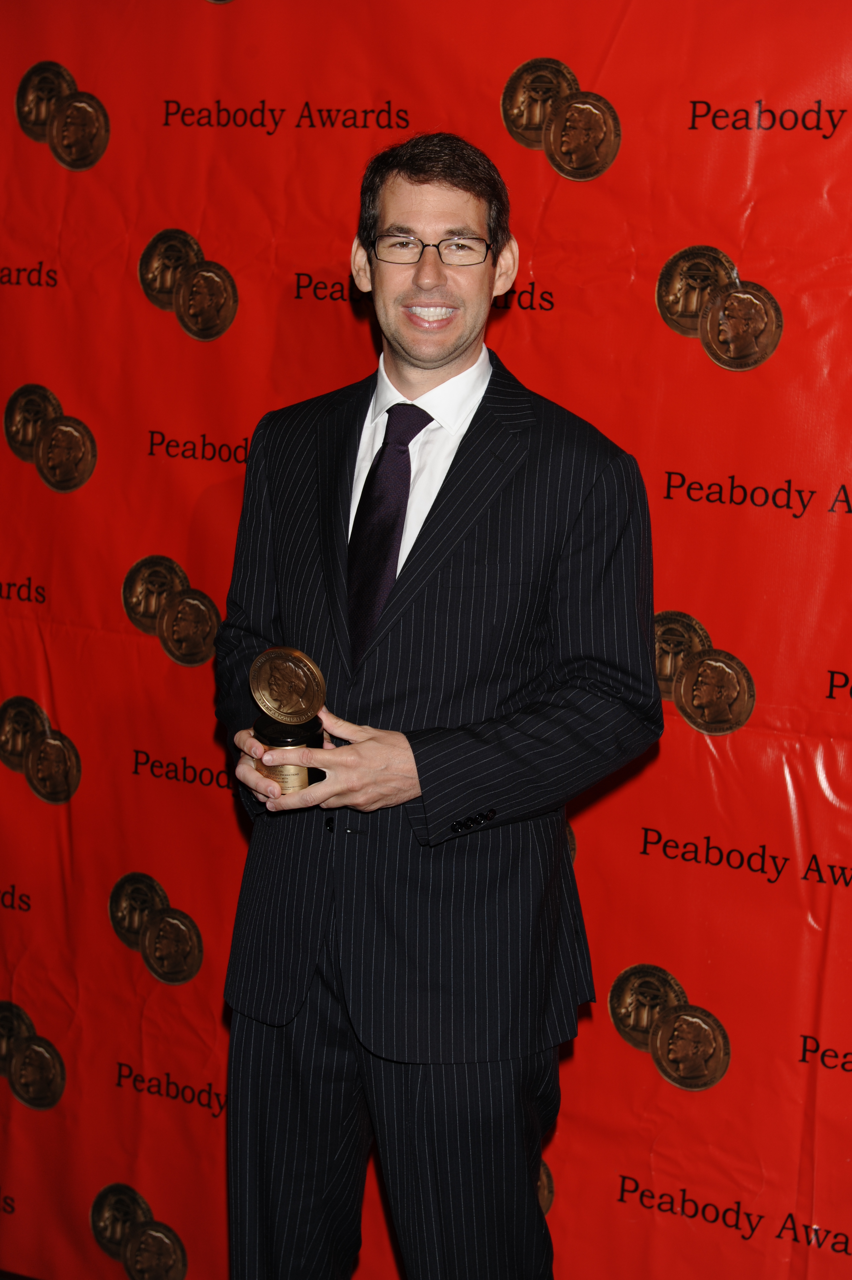 PHOTO CREDIT: ANDERS KRUSBERG / PEABODY AWARDS Doug Ellin 68th Annual Peabody Awards Luncheon Waldorf=Astoria Hotel New York, NY USA May 18, 2009